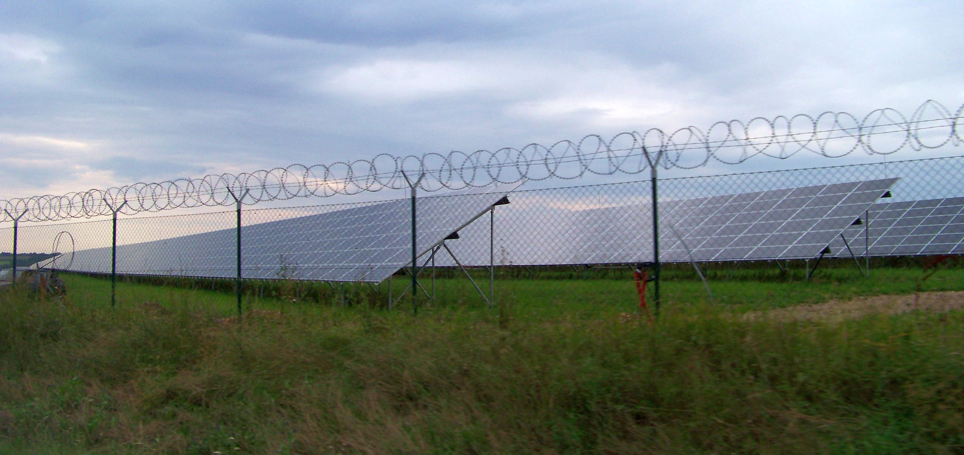 Nová Ves-Vepřek, Mělník District, Central Bohemian Region, the Czech Republic. A photovoltaic power plant.